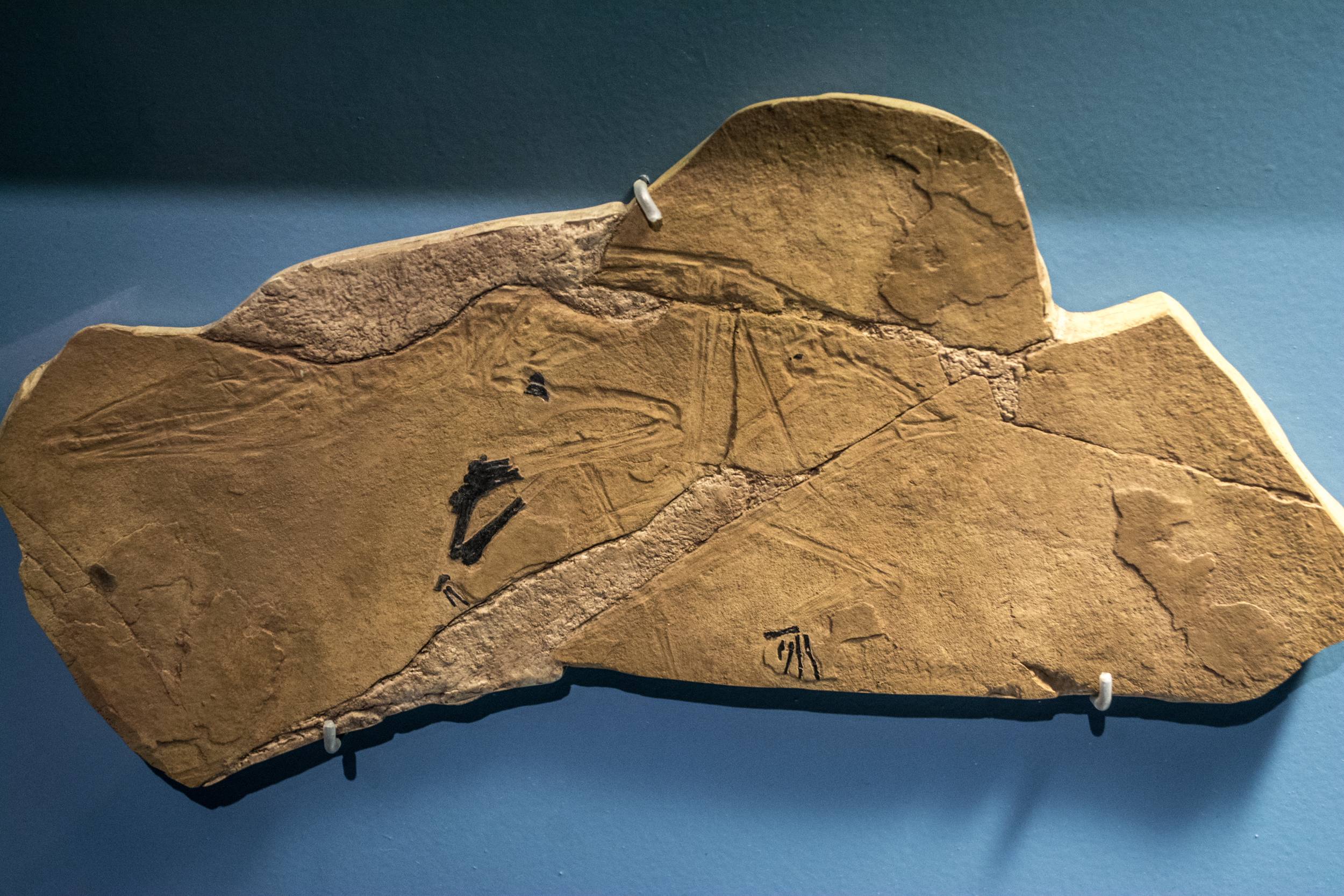 Cast of a fossil Preondactylus buffarinii, one of the earliest pterosaurs. On display as part of the exhibit "Pterosaurs: Flight in the Age of Dinosaurs" at the Cleveland Natural History Museum in Cleveland, Ohio, in the United States. This fossil was found in the Rio Seazza Valley in Italy. It dates to about 220 million years ago, and is held by the Friuli Natural History Museum. Most of what is left are impressions in the rock, as the fossil skeleton itself disintegrated when released from the rock.